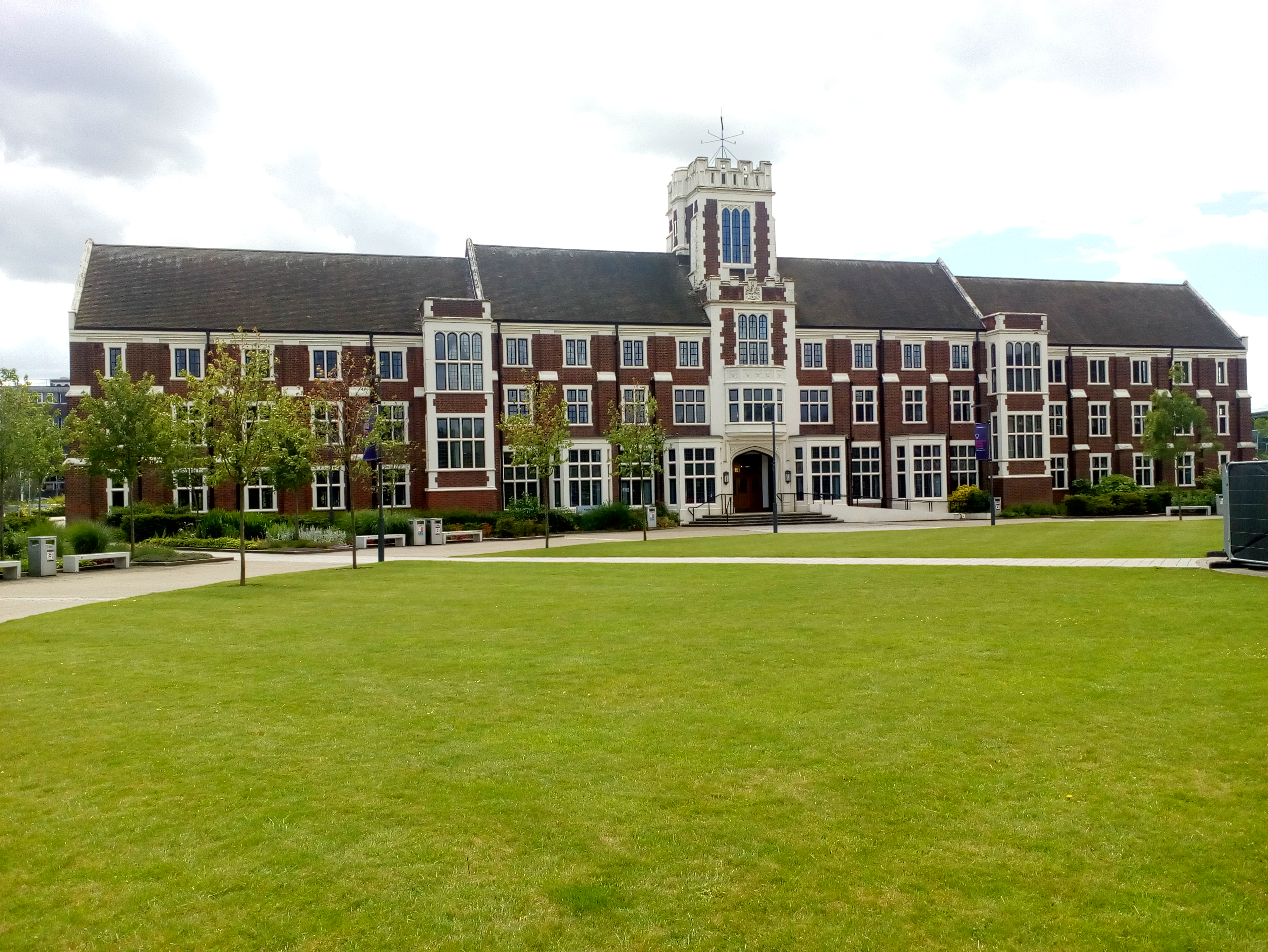 Loughborough University buildings 2017